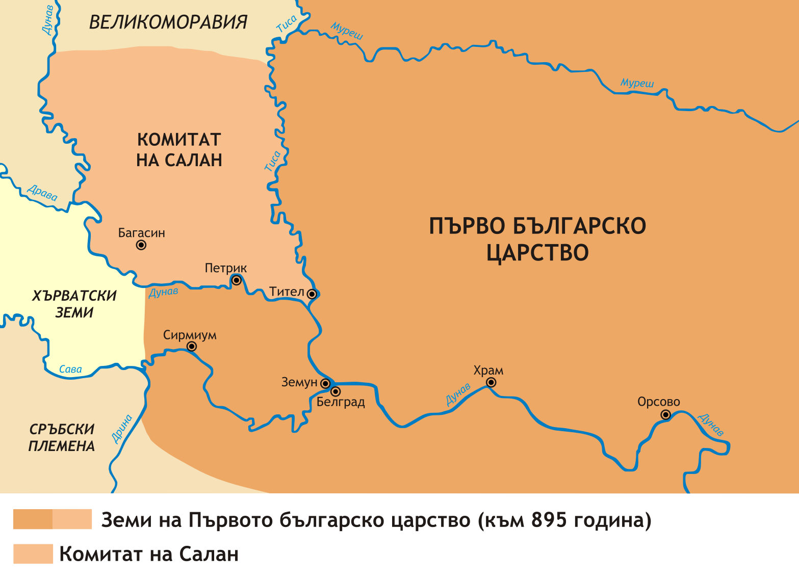 Historical map of medieval county of Bulgarian duke Salan (9th century)